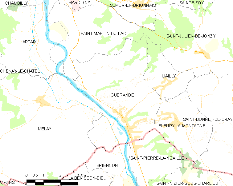 Map of French municipality